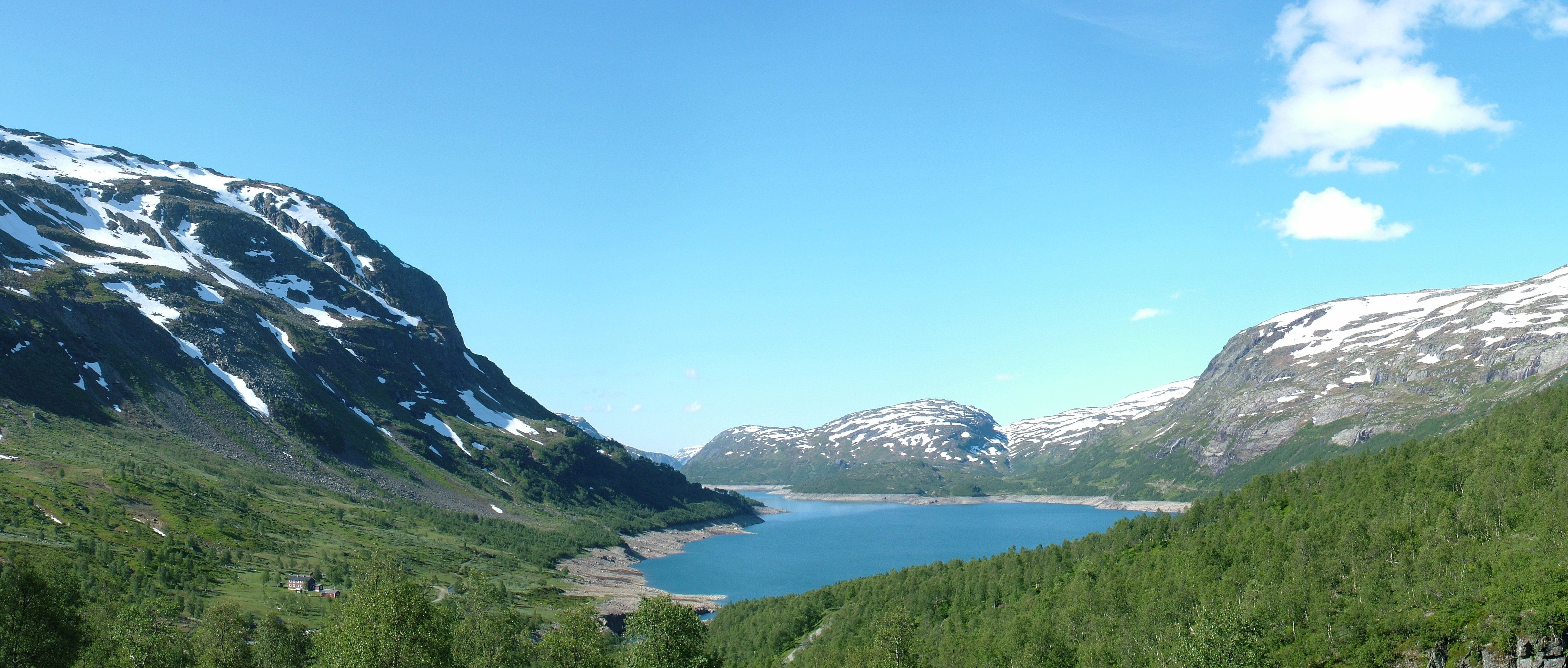 Panoramic view on Vivassvatnet, one of the lakes in Hardangervidda national park, Norway.